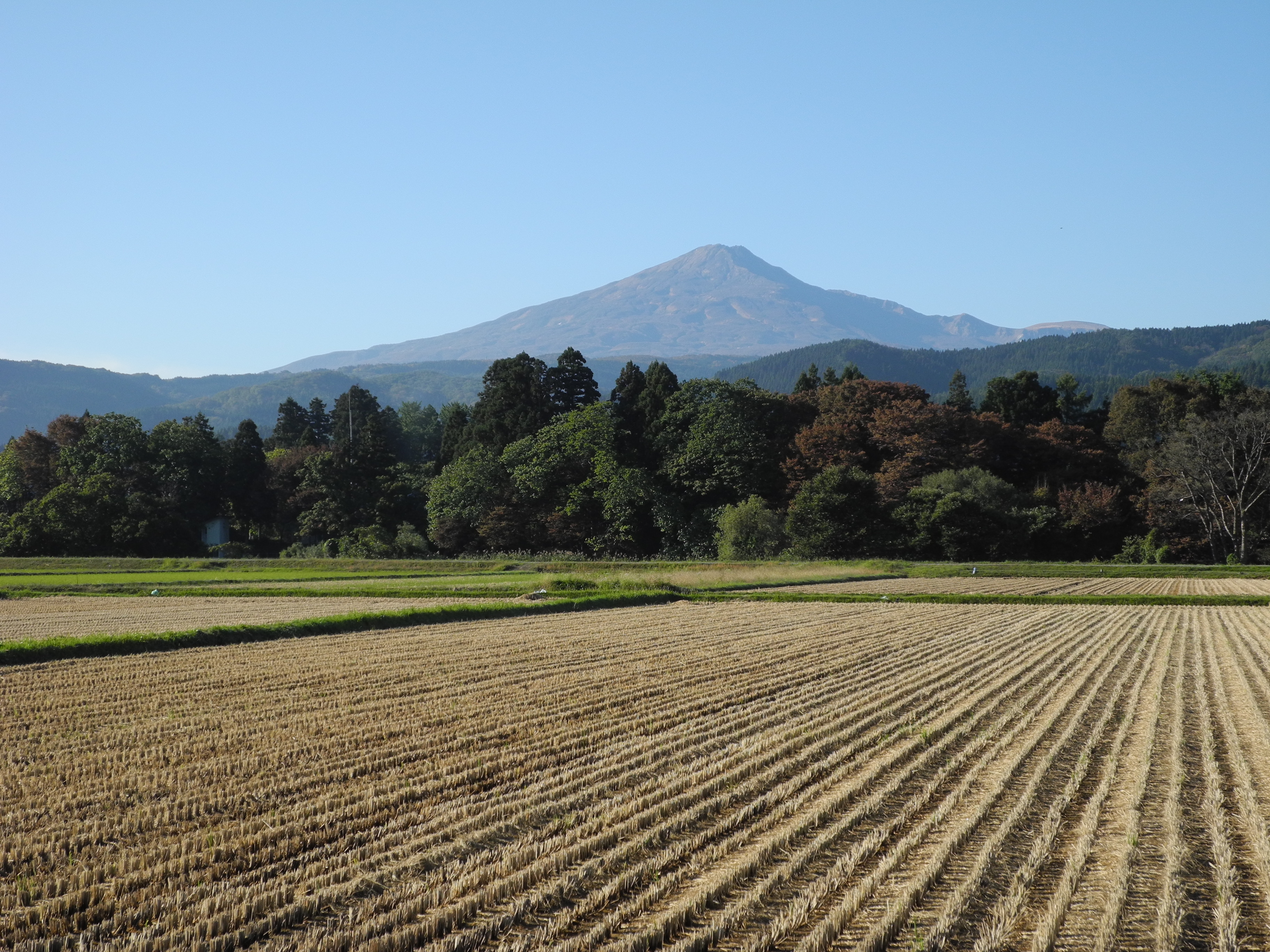 The NNE side of Mt. Chokai overlooking harvested rice fields. Chokai, Yurihonjo, Akita, Japan.